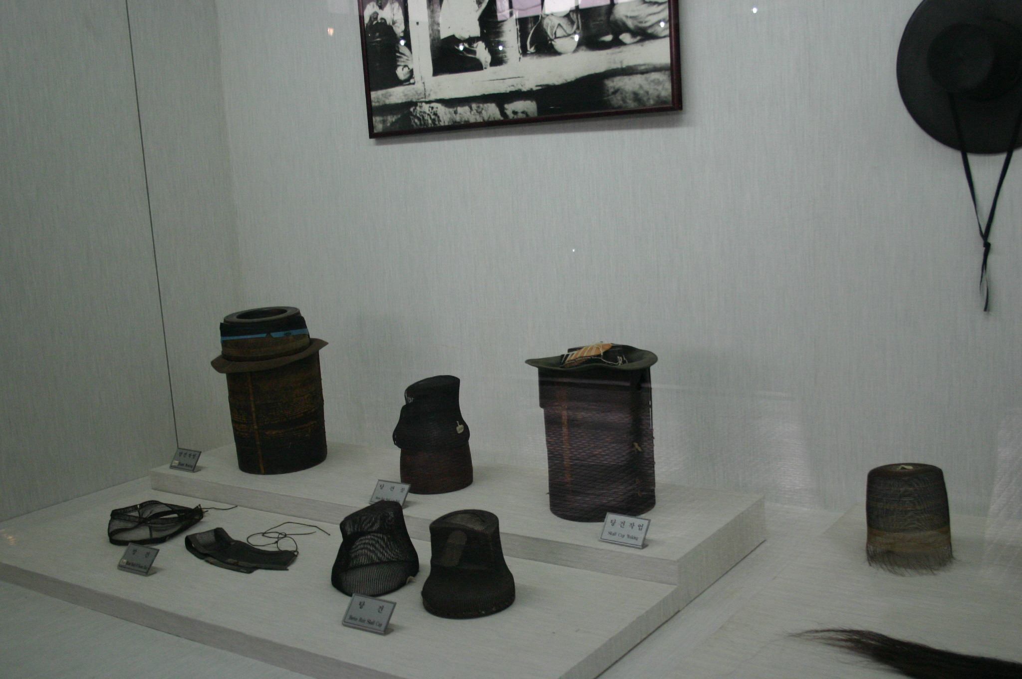 Museum in Jeju, South Korea